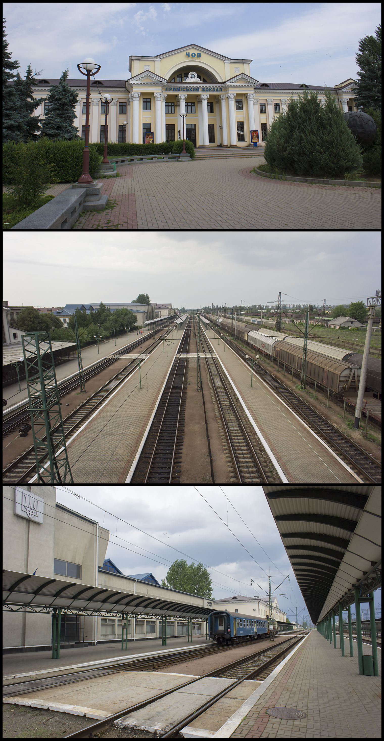 Chop, Ukraine. Српски (ћирилица): Гранични град Чоп, Украјина. На другој страни реке Тисе лежи Мађарска.